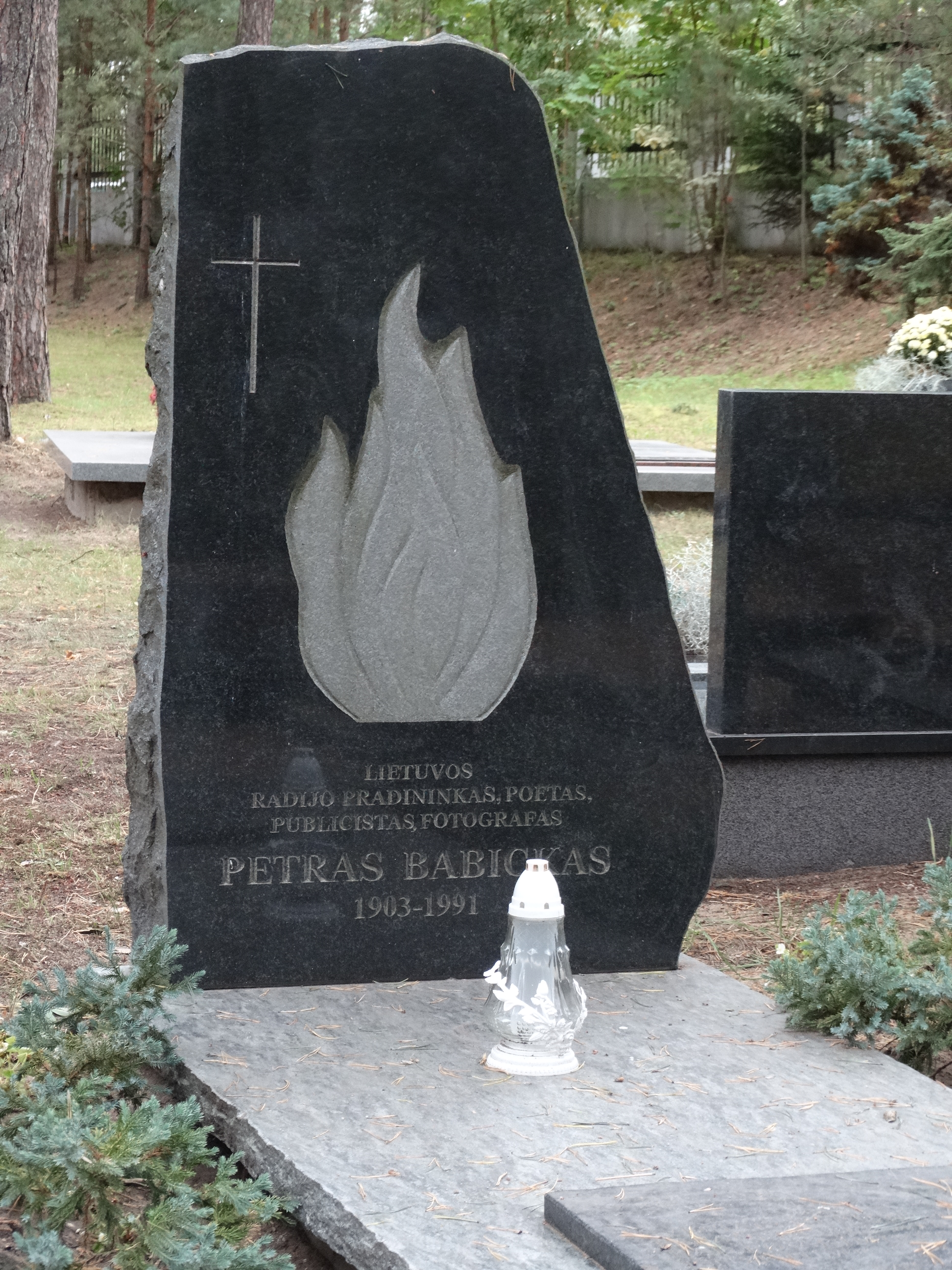 Tomb of Petras Babickas, Petrašiūnai, Lithuania